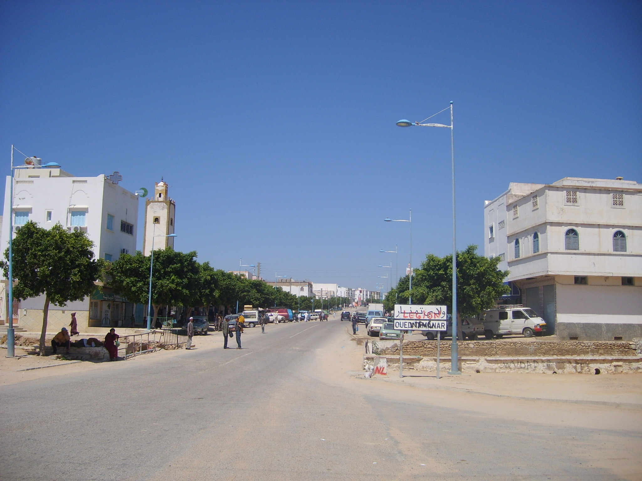 Main road in Tamanar, Morocco. The road sign shows "Oued Tamanar" (Tamanar Valley).